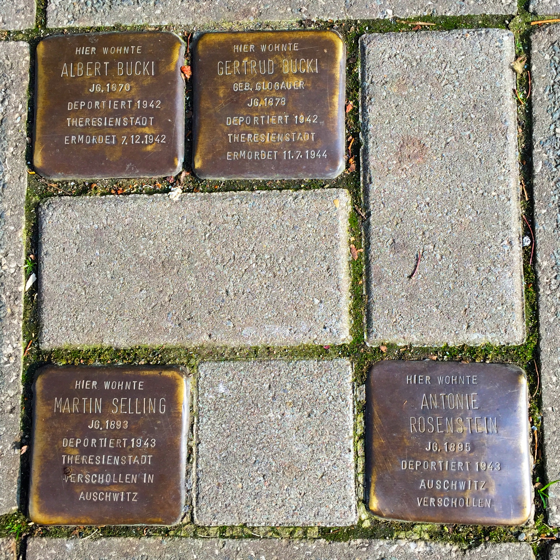 Stolperstein for Albert and Gertrud Bucki, Martin Selling, Antonie Rosenstein in Nuremberg, Hochstrasse 32